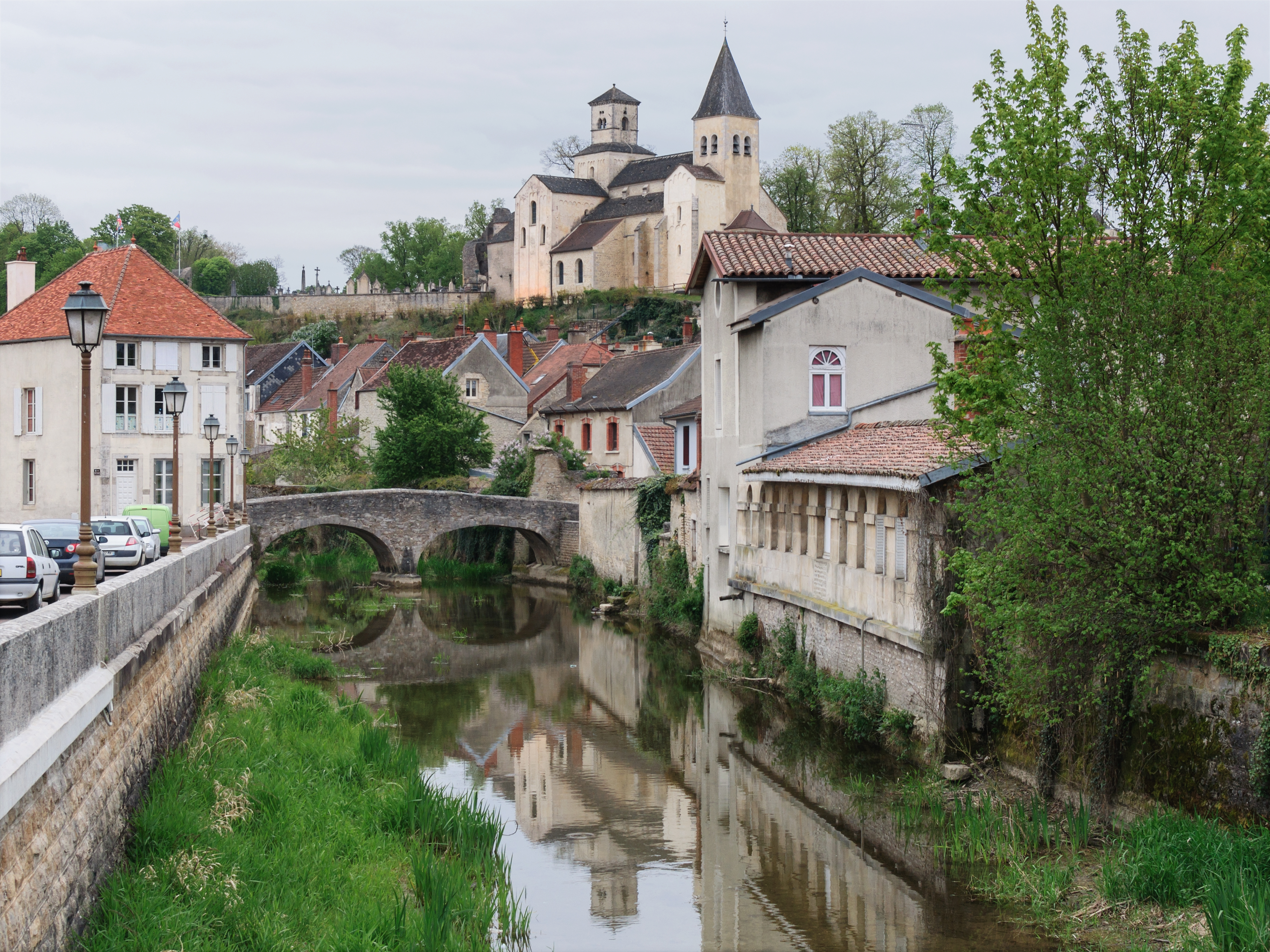 A view of Châtillon-sur-Seine, Côte-d'Or department, Burgundy, France, with the pont du Pertuis-au-Loup crossing the Seine River and the church Saint-Vorles.